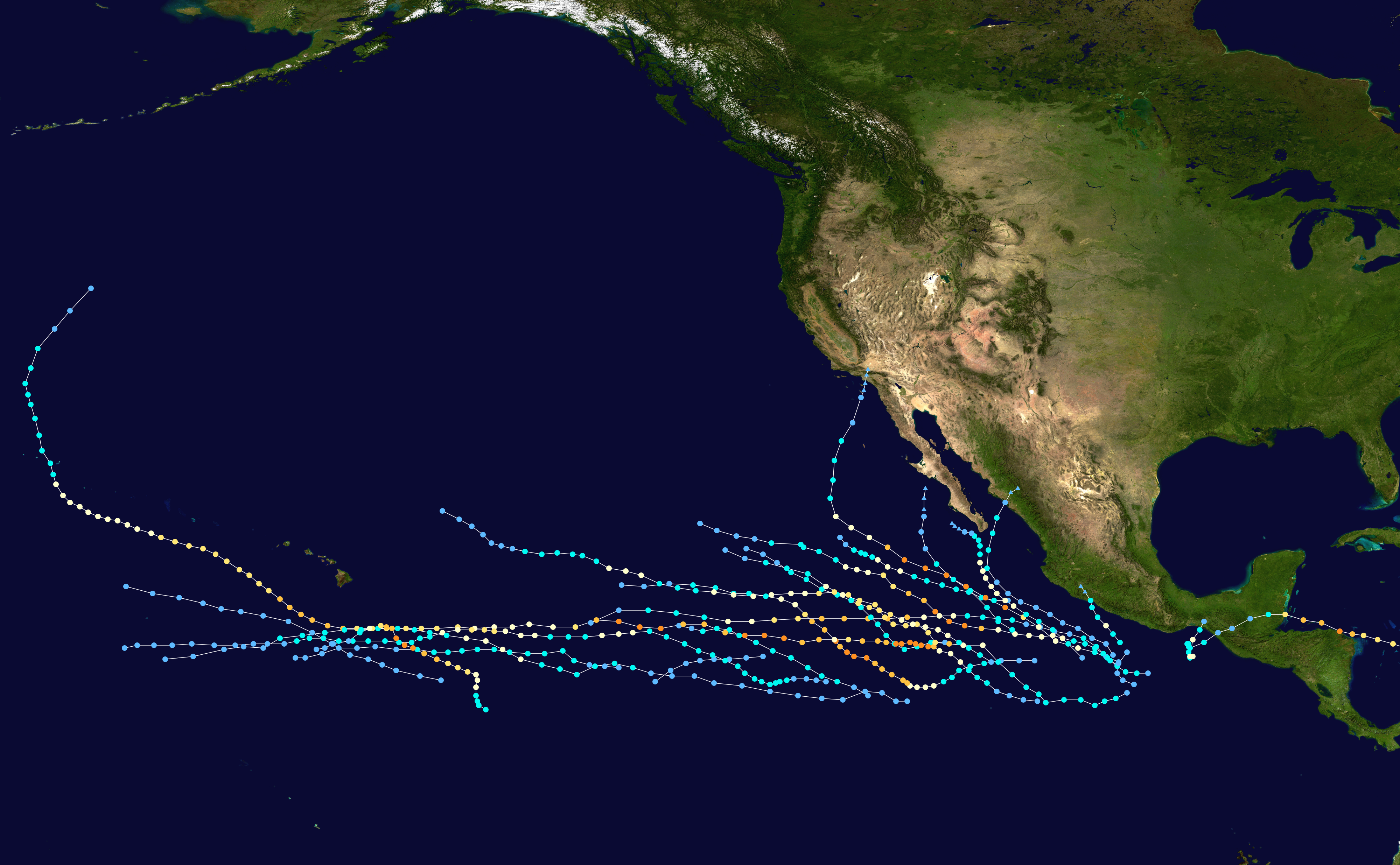 This map shows the tracks of all tropical cyclones in the 1978 Pacific hurricane season. The points show the location of each storm at 6-hour intervals. The colour represents the storm's maximum sustained wind speeds as classified in the Saffir-Simpson Hurricane Scale (see below), and the shape of the data points represent the type of the storm. Saffir–Simpson hurricane wind scale Tropical depression≤38 mph≤62 km/h Category 3111–129 mph178–208 km/h Tropical storm39–73 mph63–118 km/h Category 4130–156 mph209–251 km/h Category 174–95 mph119–153 km/h Category 5≥157 mph≥252 km/h Category 296–110 mph154–177 km/h Unknown Storm typeTropical cycloneSubtropical cycloneExtratropical cyclone / Remnant low / Tropical disturbance